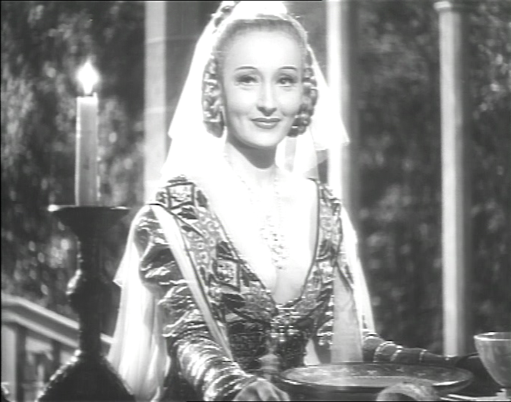 Clara Calamai in La cena delle beffe (1941).